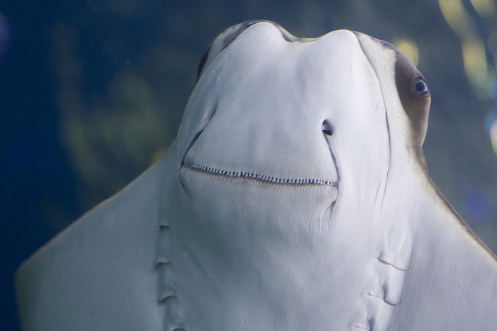 Pacific cownose ray (Rhinoptera steindachneri) at the Aquarium of the Pacific.